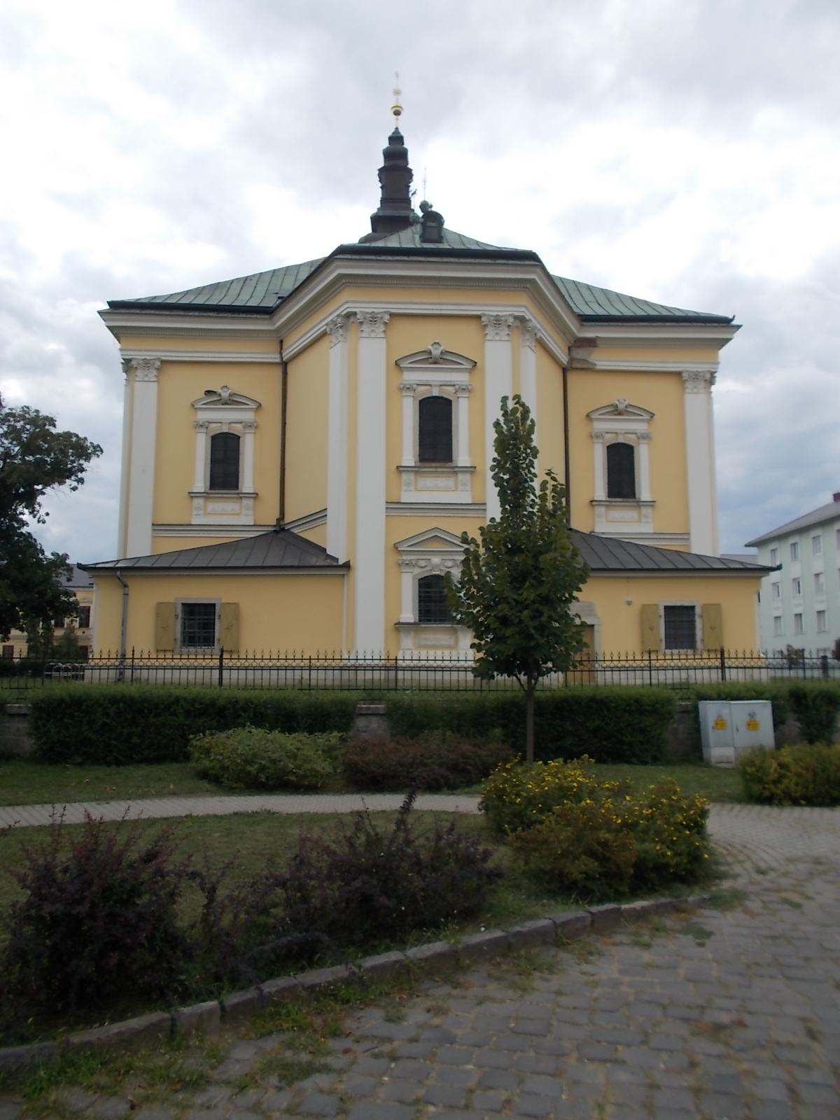 East side . Lutheran Great Church, Baroque origin, 1784-1786. Reconstructed in eclectic neo-baroque style between 1850-1860, 1885-1886 and 1936. - Luther Square, Nyíregyháza, Szabolcs-Szatmár-Bereg County, Hungary.